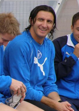 Slovak goalkeeper Kamil Čontofalský